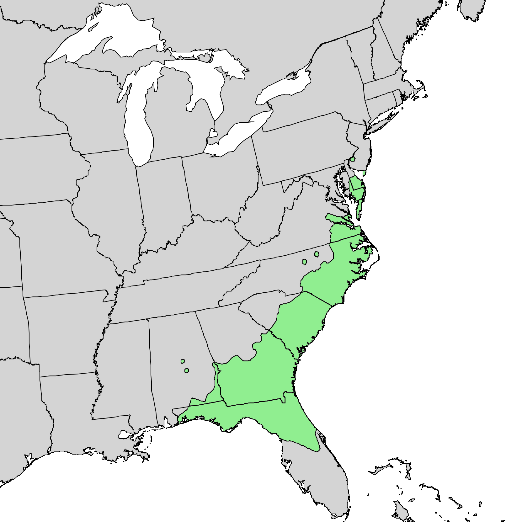 Natural distribution map for Pinus serotina